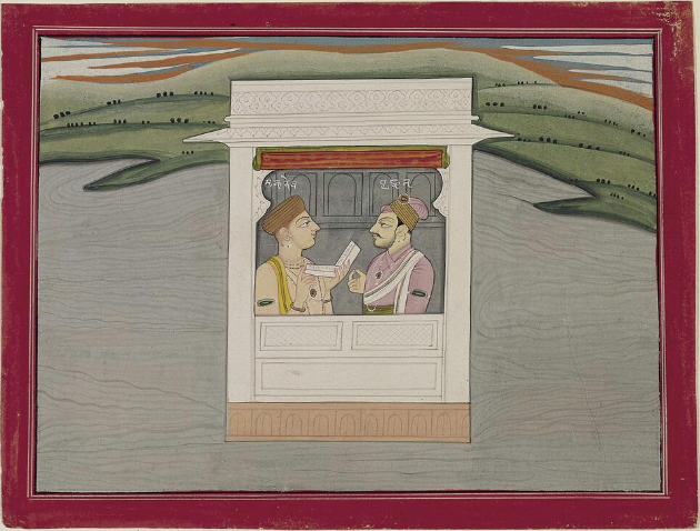 Illustration to the Bhagavatapurana: Sage Sukdeva and King Parikshit, c. 1775-1800 India: Himachal Pradesh, Guler Workshop, 1750-1825 Opaque watercolor on paper image: 7-1/4 x 10-1/16 in. (18.4 x 25.6 cm); sheet: 8-1/2 x 11-1/4 in. (21.6 x 28.6 cm) Norton Simon Museum, Gift of Ramesh and Urmil Kapoor P.2002.02.7 © 2012 Norton Simon Museum Not on view Small inscriptions above the men identify them as Sukdeva on the left and Parikshit on the right. Sukdeva was a learned sage or philosopher and the narrator of the Bhagavatapurana, the epic tale of the life and adventures of the great Hindu god Krishna. Sukdeva spent a week reciting the text to King Parikshit, who gained salvation by listening to the story. The scene takes place within a small pavilion hovering above the banks of the holy river Ganga (known today as the Ganges), where the recitation took place.